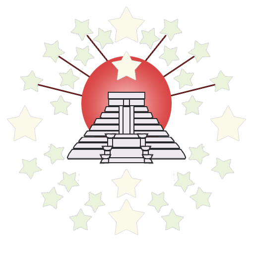 Flag of Huehuetenango, Designed and Created in 1955 by José Osberto Makepeace Palacios Current Image Created and Uploaded by Zelda-Maniack